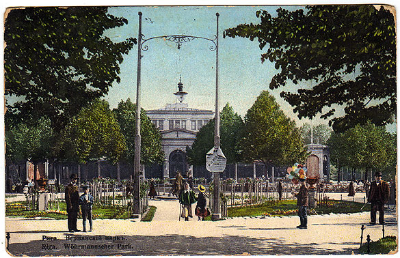 Entrance of the Vērmanes Garden Riga, Latvia (at the time a part of the Russian Empire)